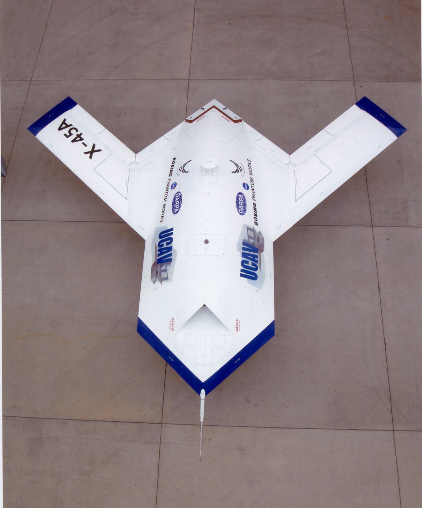 Top view of AV 1